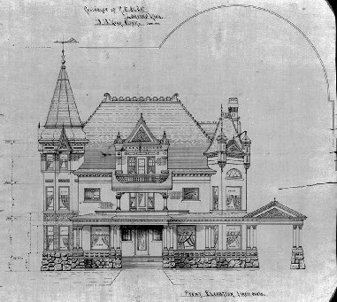 Blue print of the Olds Mansion built in 1904 in Lansing, Michigan in the United States, since demolished to make way for Interstate 496, the Olds Freeway